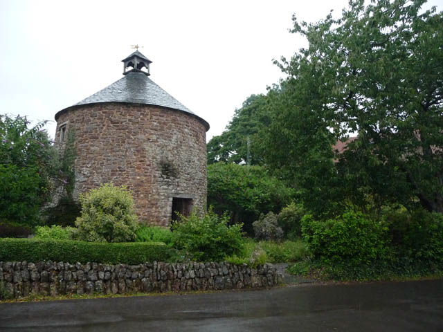 Dunster Dovecote This dovecote is located on Priory Green. Probably built in the 16th century, it originally belonged to the Benedictine priory. Following the dissolution of the monasteries, the dovecote passes into the hands of the Luttrell family of Dunster Castle. The dovecote is now owned by the Parochial Church Council.